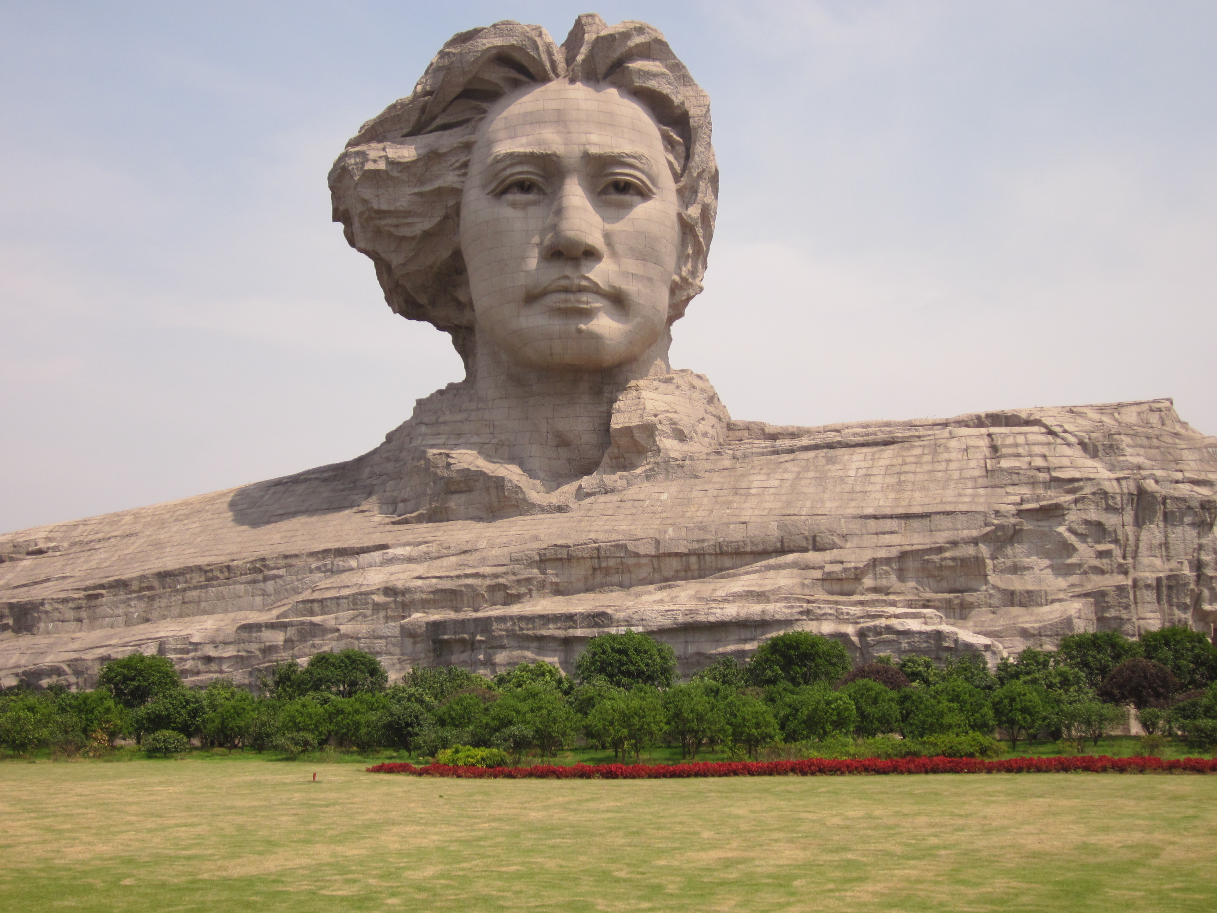 Mao Zedong youth art sculpture，in Orange continent head, Changsha